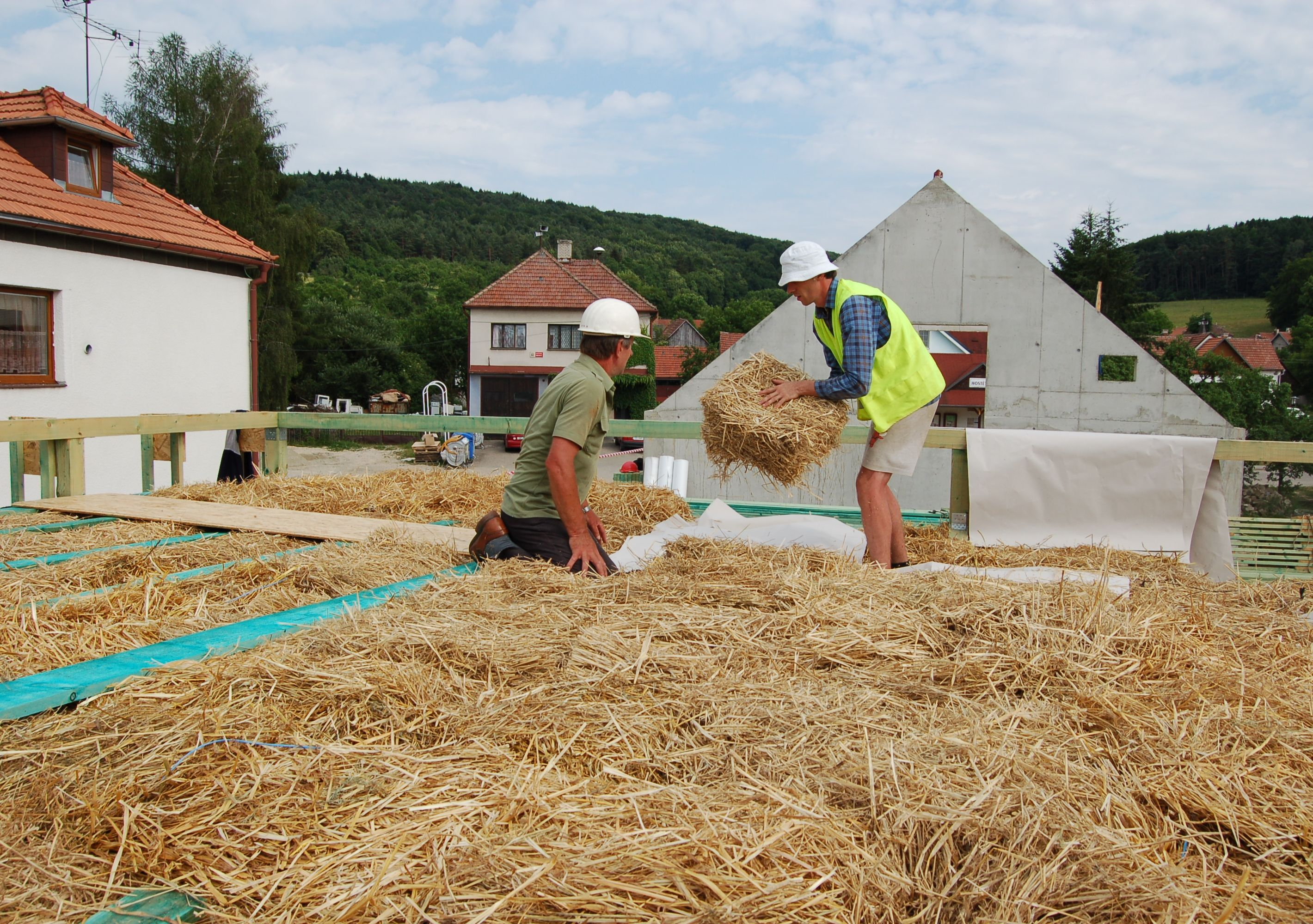 Building of Centre Veronica Hostětín in Hostětín (Czech republic) - straw roof insulation